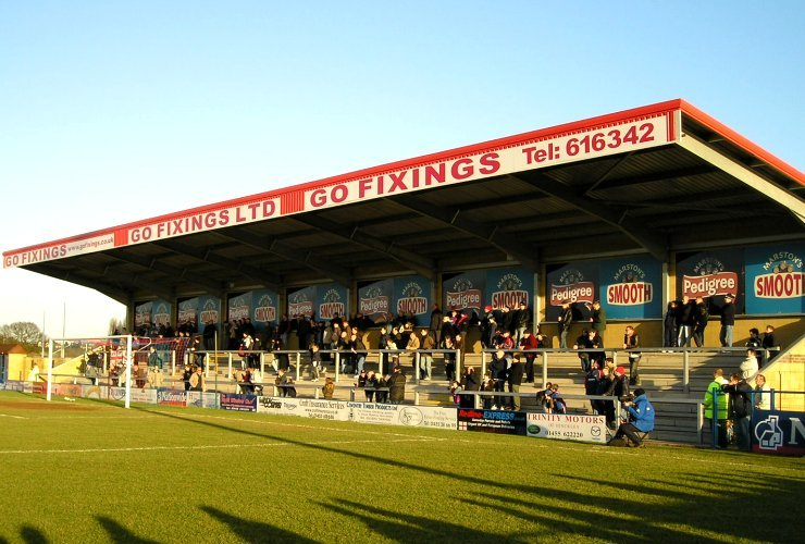 Image of the East Stand at Hinckley United